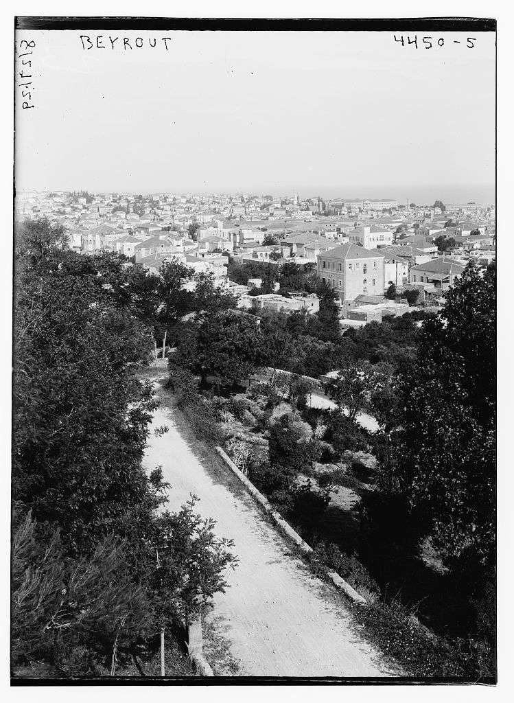 Bain News Service,, publisher. Beyrout [i.e. Beirut] [between ca. 1915 and ca. 1920] 1 negative : glass ; 5 x 7 in. or smaller. Notes: Title from data provided by the Bain News Service on the negative. Forms part of: George Grantham Bain Collection (Library of Congress). Format: Glass negatives. Repository: Library of Congress, Prints and Photographs Division, Washington, D.C. 20540 USA, General information about the Bain Collection is available at Higher resolution image is available (Persistent URL): Call Number: LC-B2- 4450-5